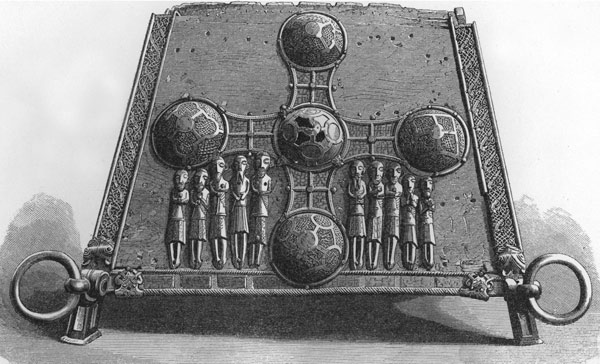 Drawing from: James Graves, "The Church and Shrine of St. Manchán." The Journal of the Royal Historical and Archaeological Association of Ireland, Fourth series 3 (1874). pp. 134-50.